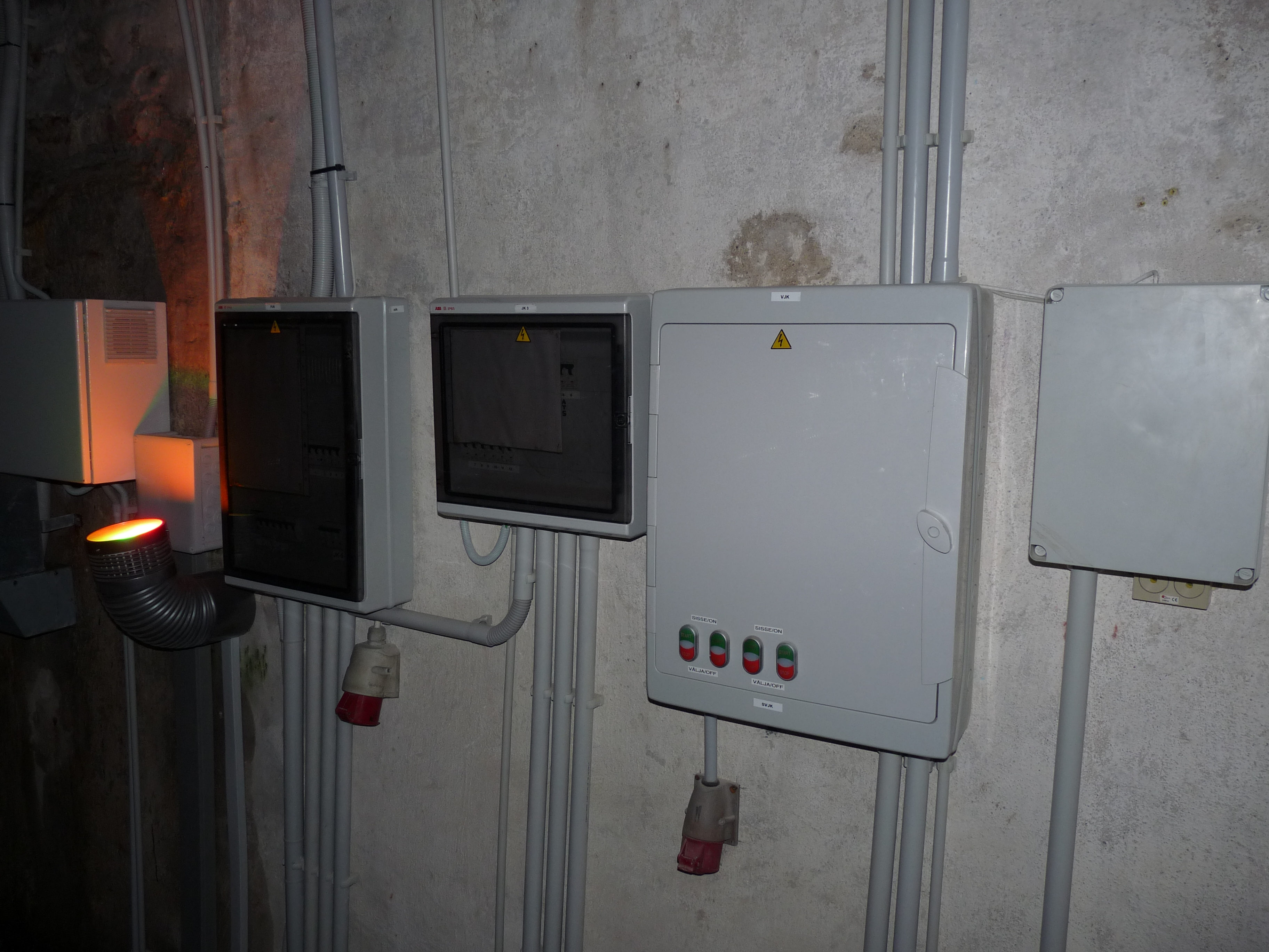 Distribution board in old building.